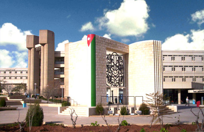 Jordan University of Science and Technology